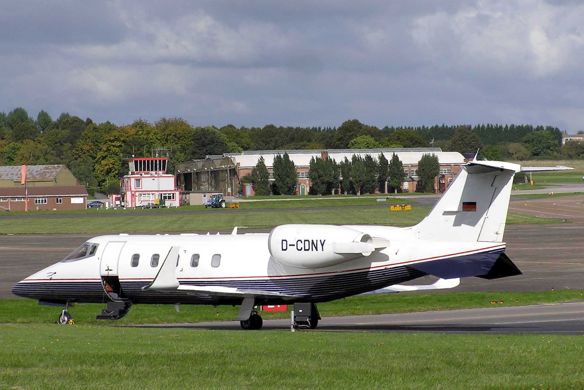 Filton Aerodrome, Bristol, England, with the small control tower in the background. The aircraft is a Learjet 60 business jet, German registration D-CDNY. Photographed by Adrian Pingstone in September 2004 and released to the public domain.